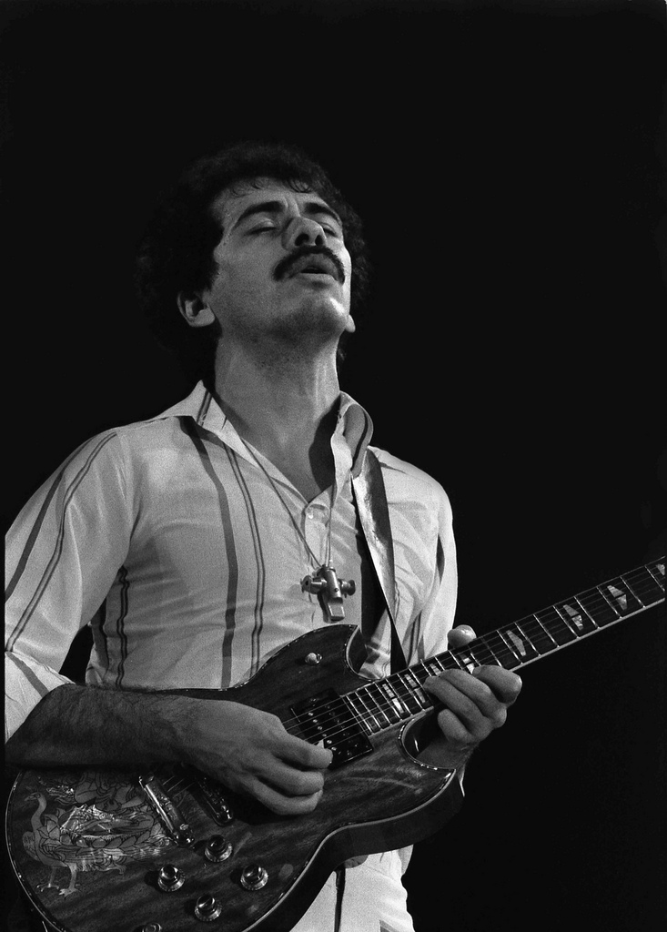 Carlos Santana 2 Carlos Santana: The inner secrets tour 1978 Groenenoordhallen Leiden The Netherlands